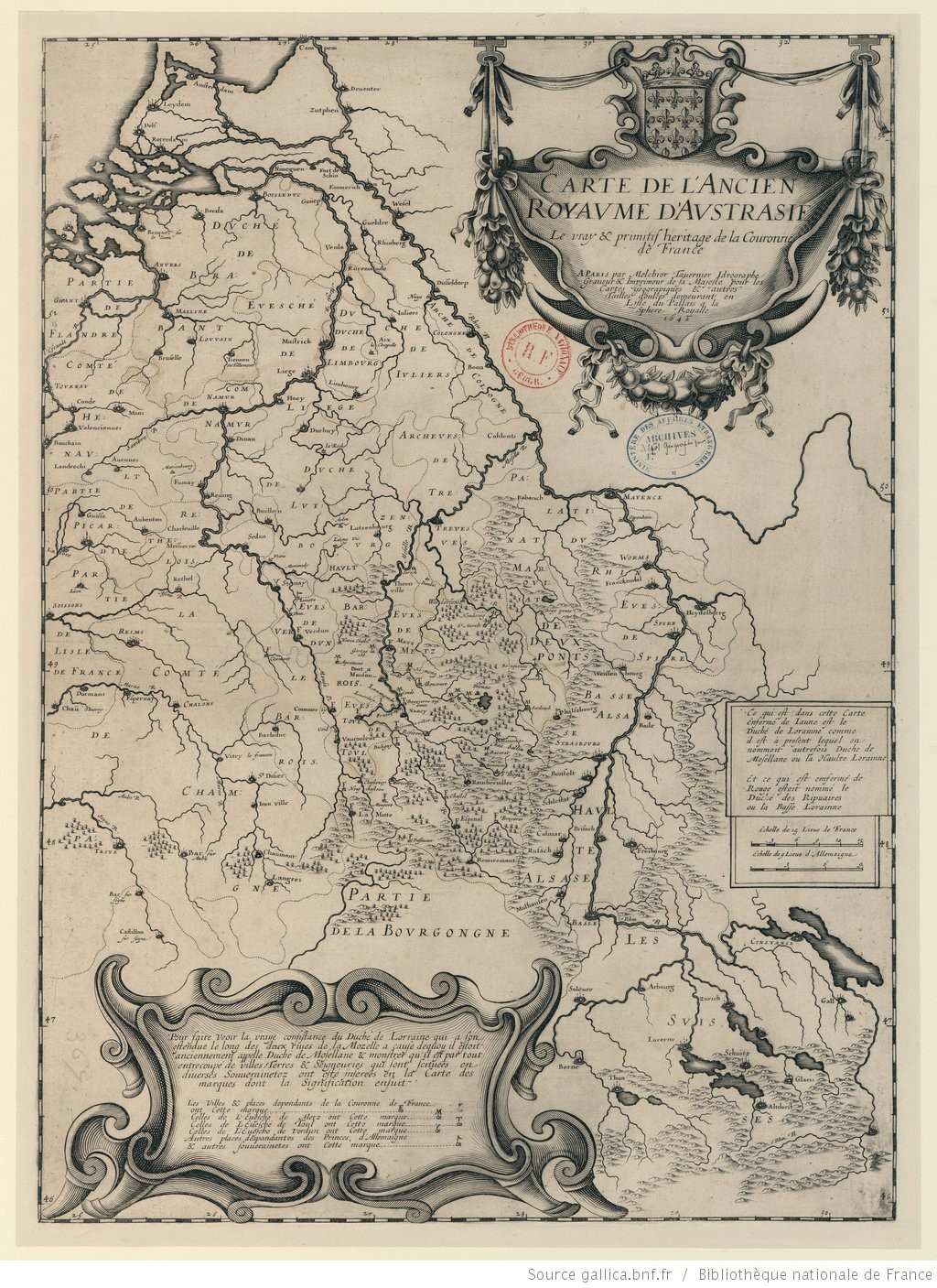 Map of the ancient kingdom of Austrasia. The true and ancient heritage of the French Crown.